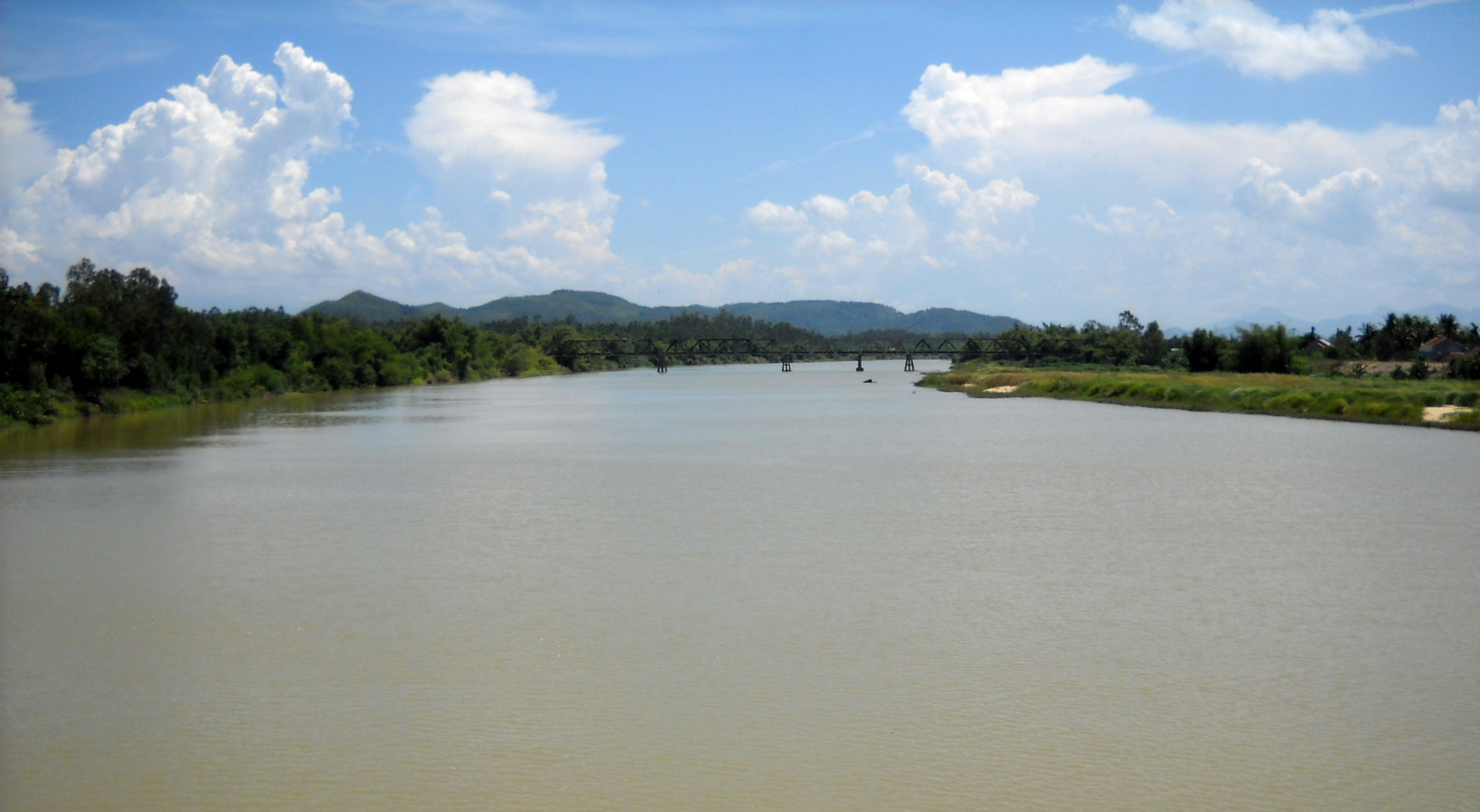 Trà Bồng River at Bình Sơn District, Quảng Ngãi Province, Central Việt Nam.